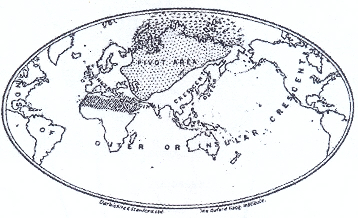 Map of the Heartland concept of 1904 coined by sir Halford John Mackinder